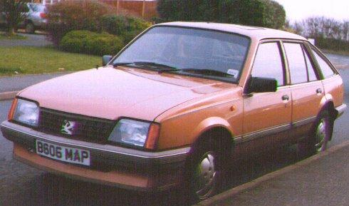 1985 post-facelift Vauxhall Cavalier GLS.